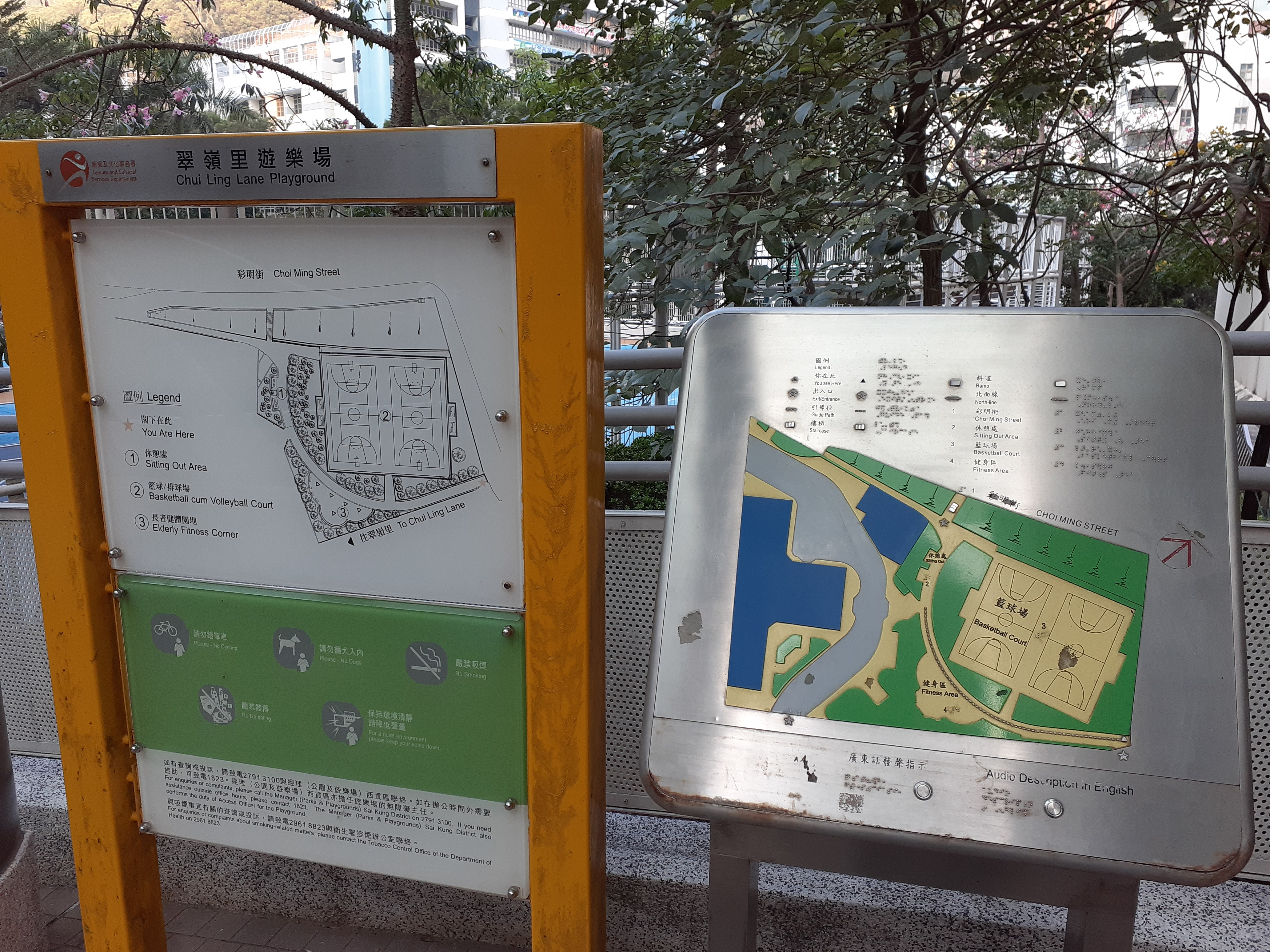 HK TKL 調景嶺 Tiu Keng Leng 彩明街 Choi Ming Street in November 2019